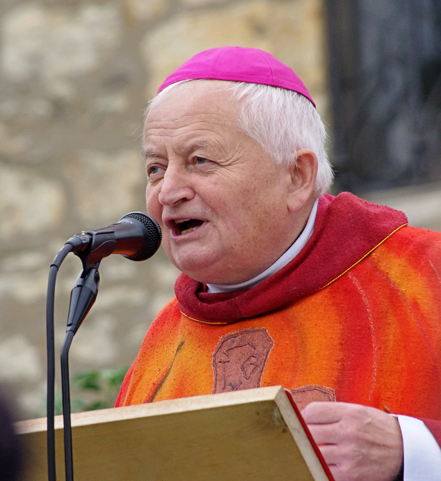 Karel Herbst giving a homily at Levý Hradec